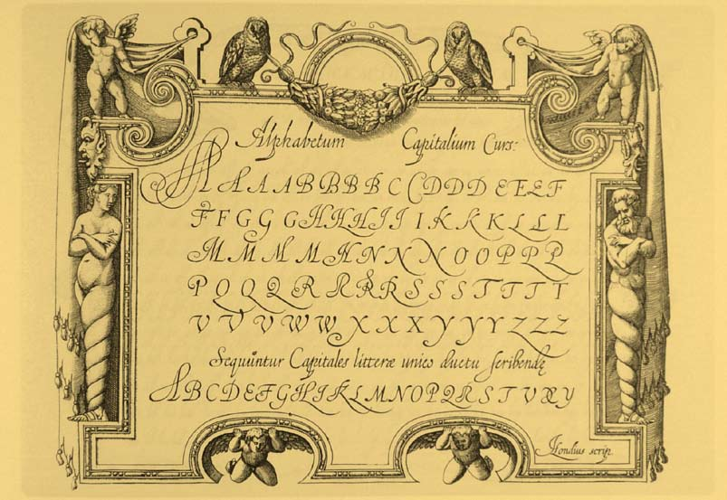 Page 7 (Alphabetum Capitalium Curs) from Theatrum artis scribendi, 1594 edition by Jodocus Hondius.